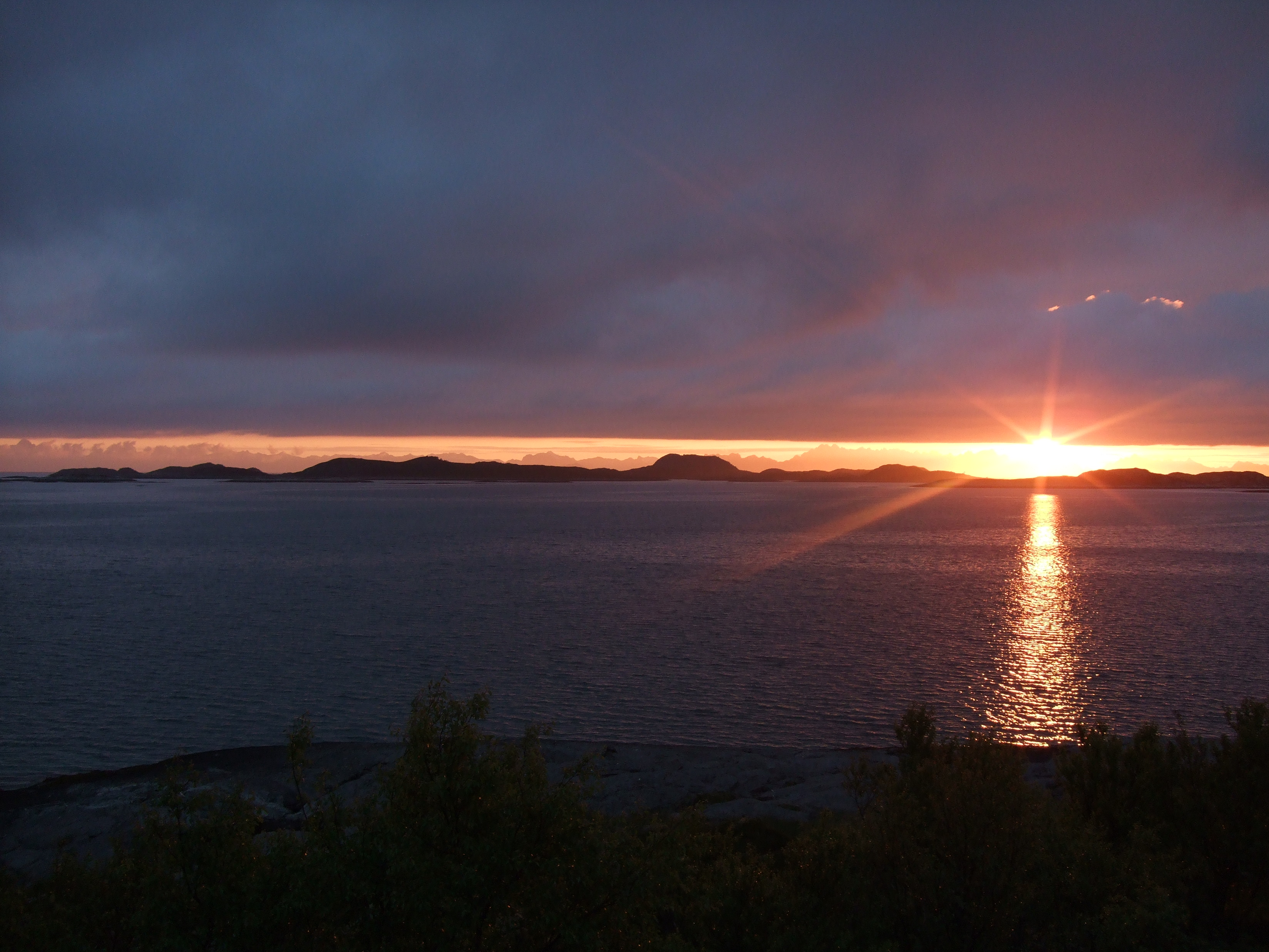 yet another photo of the midnight sun, view from Løvøy in Steigen towards Lofoten